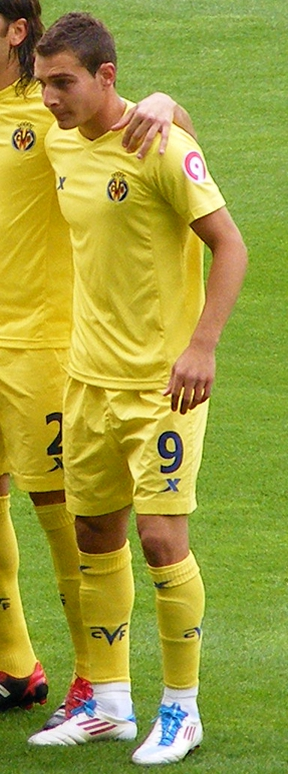 Villarreal starting XI posing before a peseason match at Wigan Athletic.